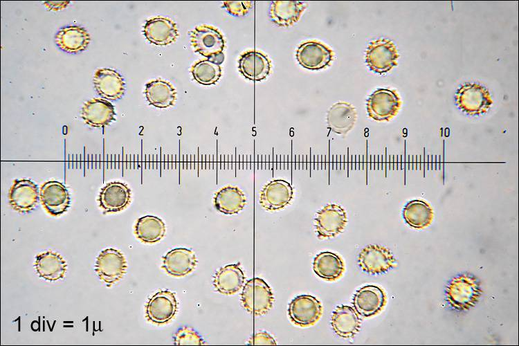 Russula ochroleuca (Pers.) Fr. Image location: Mount Kobariški Stol ridge, East Julian Alps, Posočje, Slovenia Code: Bot_444/2010_IMG1872 Habitat: Open mixed forest, flat terrain, under a Picea abies, among mosses and Picea needles; calcareous bedrock but possibly somewhat acid soil, fairly humid place, in total shade, partly protected from direct rain by tree canopies, average precipitations ~ 3.000 mm/year, average temperature 7-9 deg C, elevations 650 m (2.100 feet), alpine phytogeographical region. Substratum: soil. Place: West Hlevišče flats, north slopes of Mt. Kobariški Stoil ridge, East Julian Alps, Posočje, Slovenia EC Comments: Growing solitary, pileus diameter about 7 cm (2.7 inch); flesh firm; SP light ocher; cap skin peeling easily. Nikon D700 / Nikkor Micro 105mm/f2.8 [admin – Tue Feb 08 12:34:58 +0000 2011]: Changed location name from ‘Mount Kobariški Stol ridge, East Julian Alps, Posočje, Slovenia.’ to ‘Mount Kobariški Stol ridge, East Julian Alps, Posočje, Slovenia’ Recognized by sight For more information about this, see the observation page at Mushroom Observer.